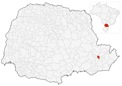 Map of the state of Paraná showing the city of Colombo in Brazil File:Parana Municip Colombo.svg is a vector version of this file. It should be used in place of this raster image when not inferior. File:Colombo Parana Brazil.png File:Parana Municip Colombo.svg For more information, see Help:SVG.